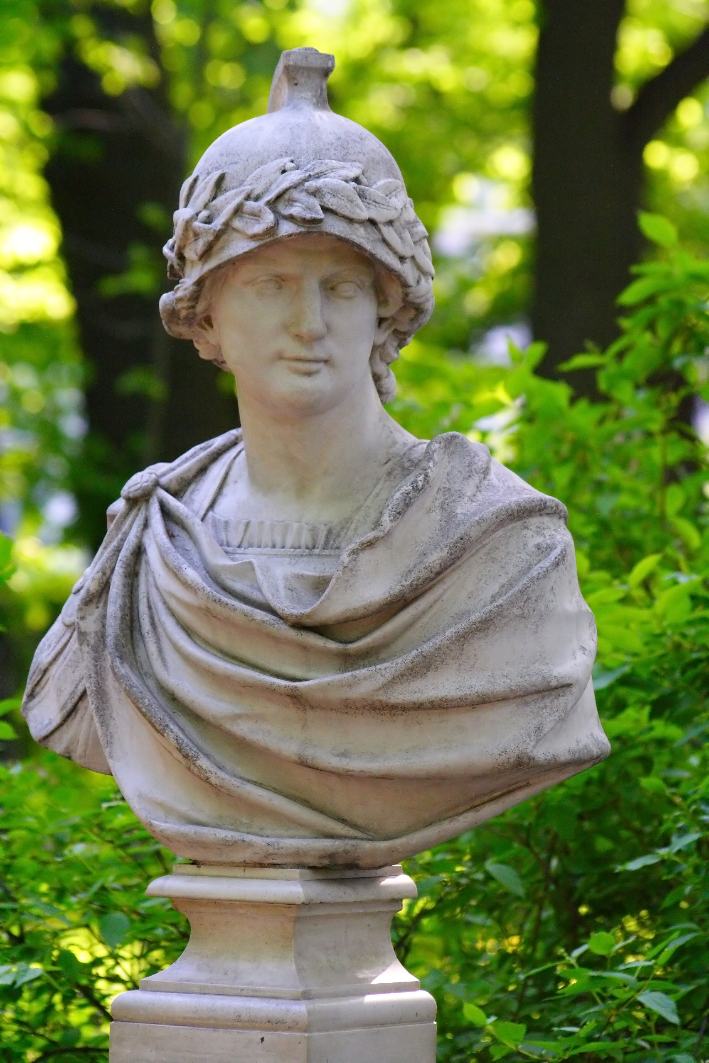 Bust of Alexander the Great, Summer Garden, Saint-Petersburg